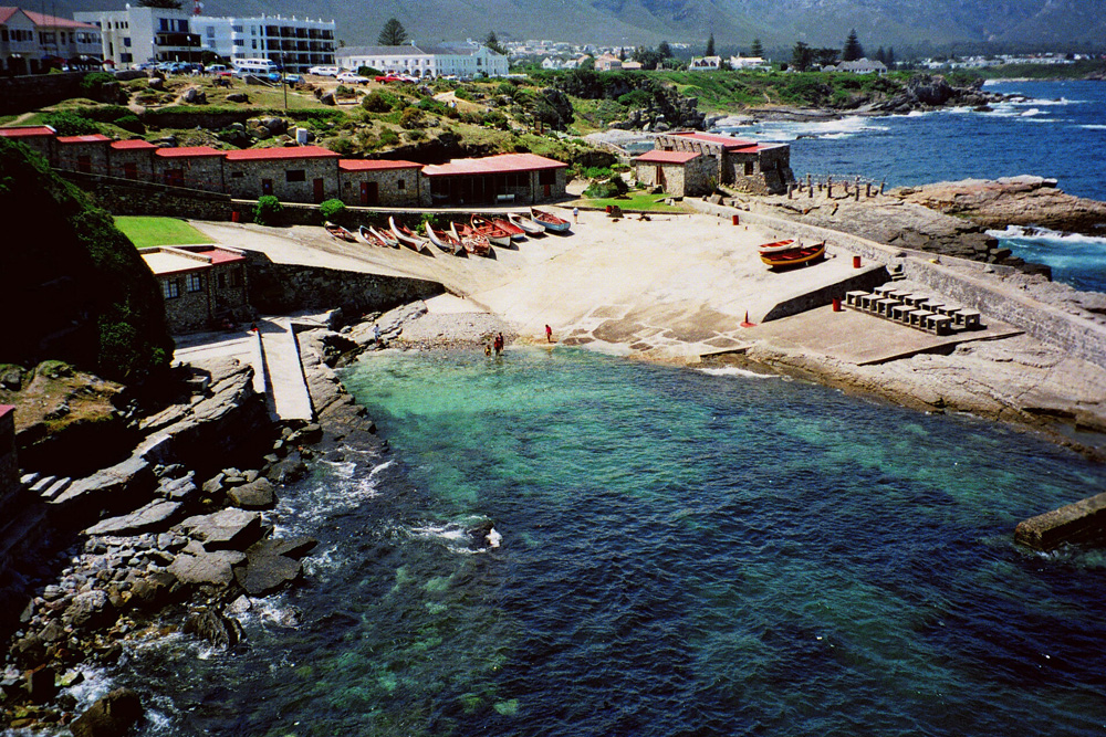 Hermanus harbour This media shows a South African Protected Site with SAHRA file reference 9/2/040/0012.